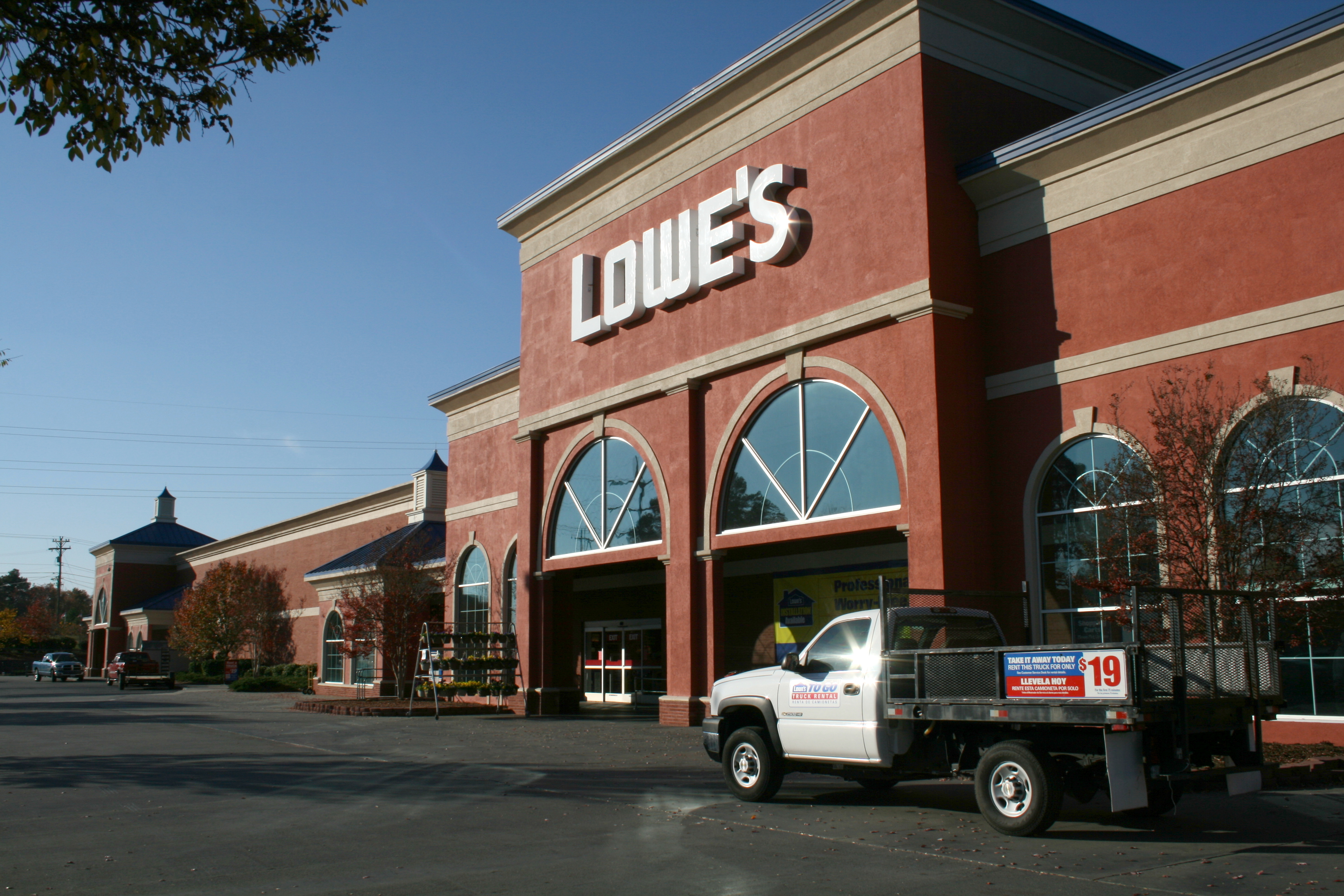 Lowe's Home Improvement Center #487 with a Lowe's rental truck on display outside at 1801 Fordham Boulevard in Chapel Hill, North Carolina.